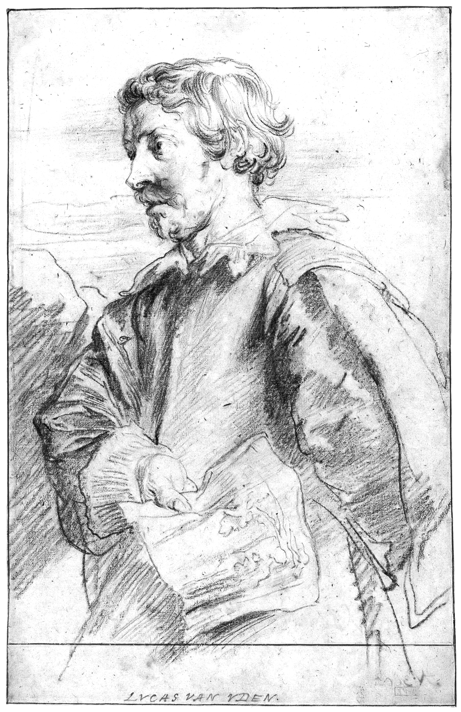 Lucas van Uden drawing 25.2 x 16.2 cm 1627 - 1635